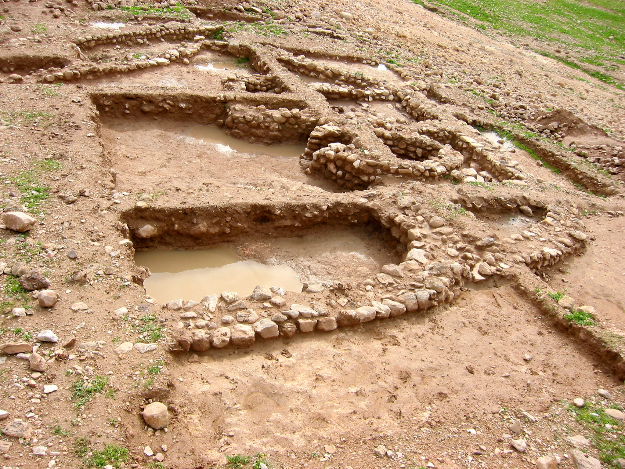 Sheikh Diab 2- Early Bronze Age 1 Archaeological site in Jordan Valley שייח' דיאב 2 - אתר ארכאולוגי מתקופת הברונזה הקדומה 1 - האתר שוכן בבקעת הירדן ליד היישוב פצאל This work is free and may be used by anyone for any purpose. If you wish to use this content, you do not need to request permission as long as you follow any licensing requirements mentioned on this page.